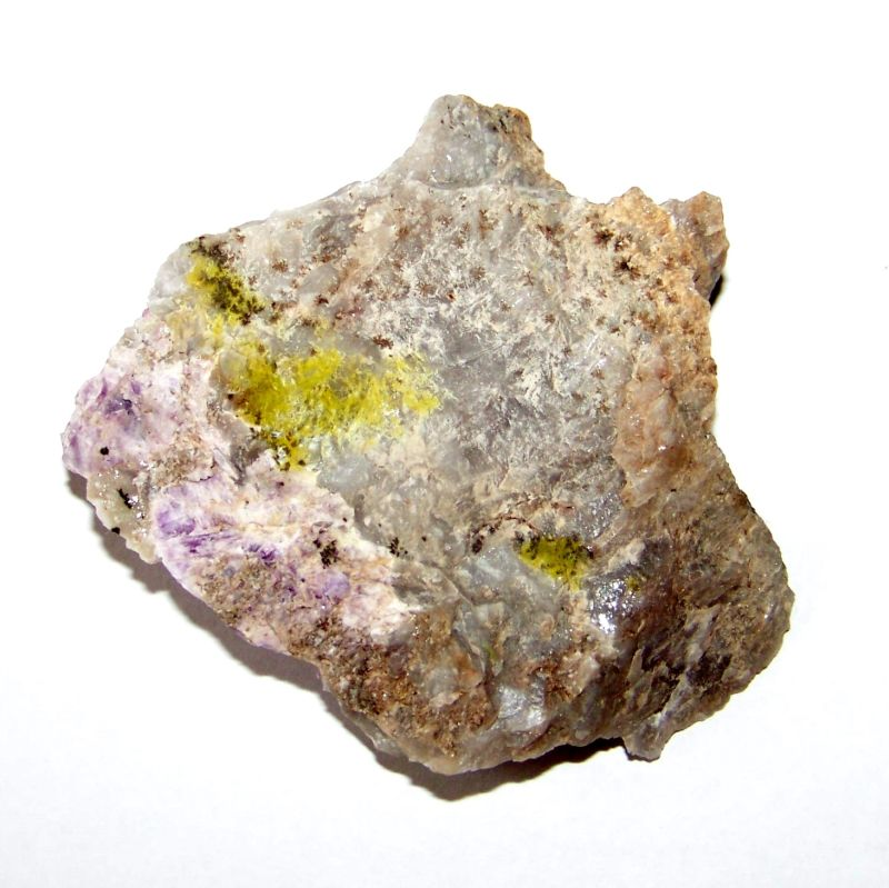 Mottramite (yellow) with fluorite and quartz. Kletno - uranium mine, Lower Silesia, Poland.